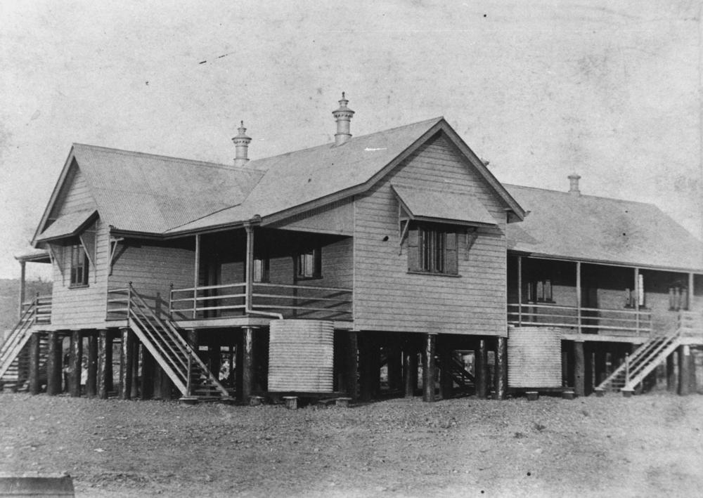 Croydon State School, ca. 1893. Croydon is located in the heart of the Gulf Savannah, in north west Queensland. When first settled in the 1880s Croydon was a large pastoral holding until gold was discovered in 1885. By 1887 the town's population had reached around 7,000 and during its heyday, Croydon was the fourth largest town in the colony of Queensland.